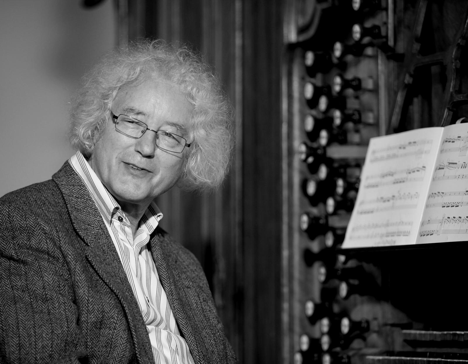 Picture of Roland Götz